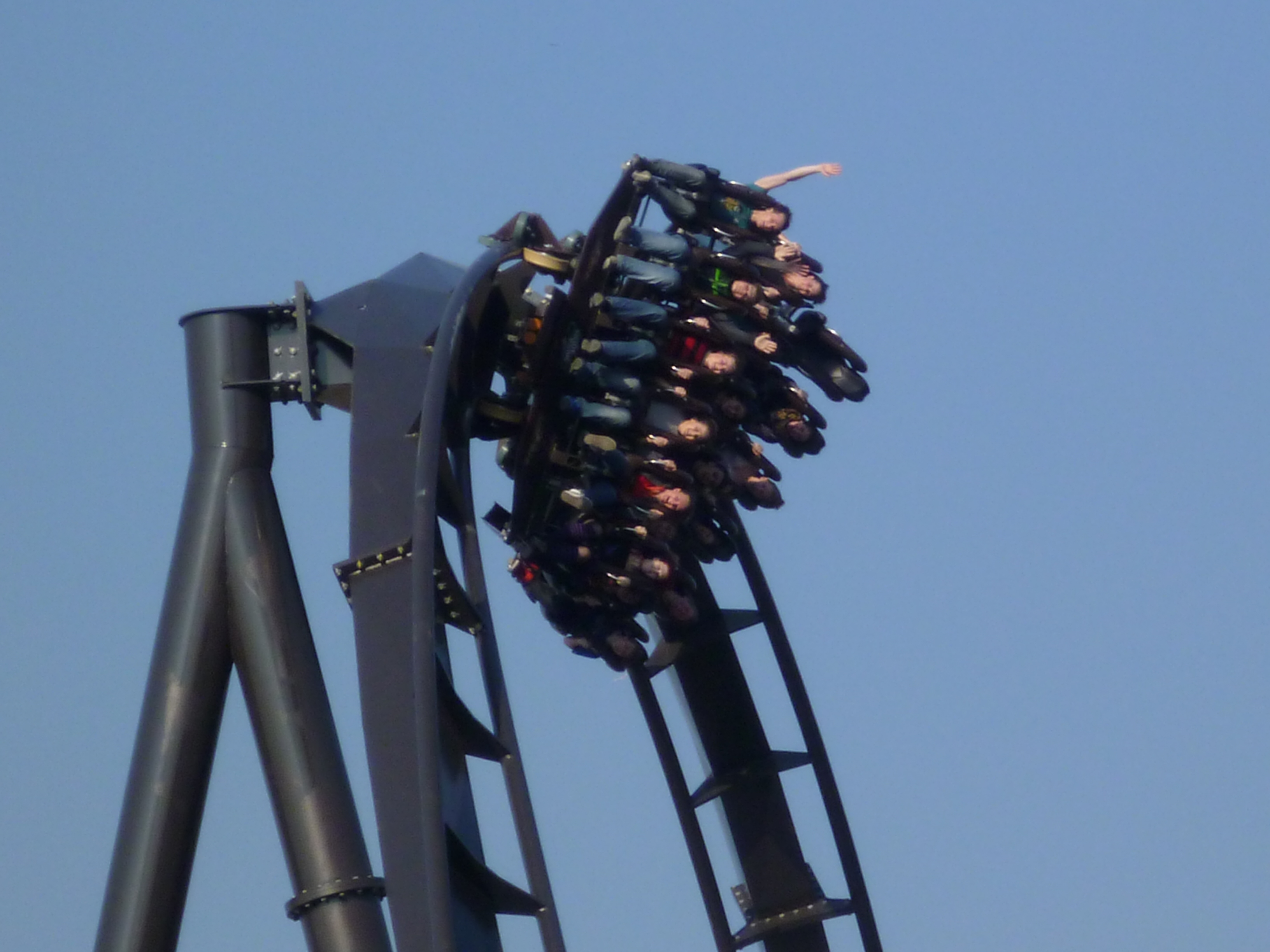 Dive Coaster KRAKE